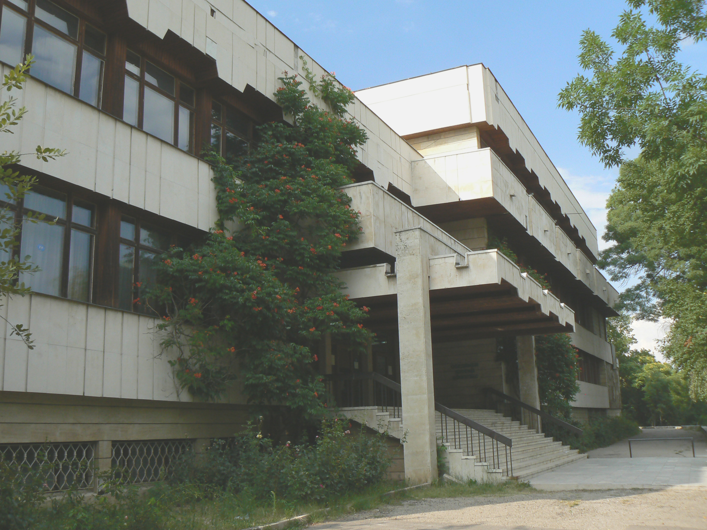 The Youth center in Pernik, Bulgaria